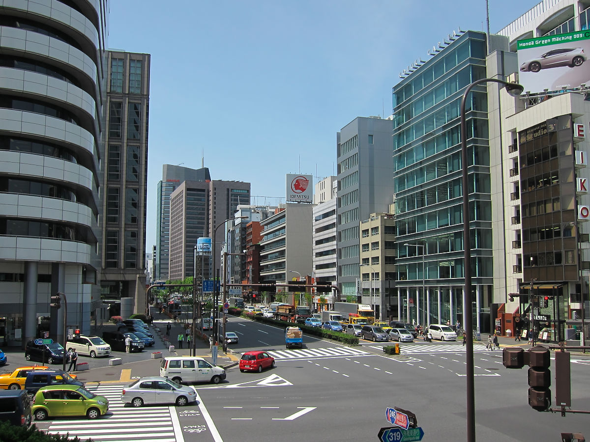 Route 246 (Aoyama Ave.) Aoyama 1chome, Tokyo.